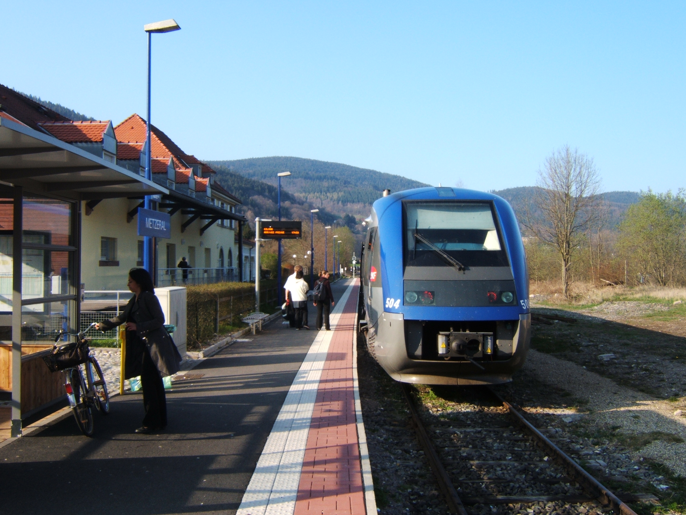 Railcar 504 and 559 (Class X 73500) in Metzeral station.